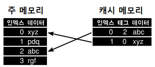 Diagram of the basic operation of a cache (Korean)